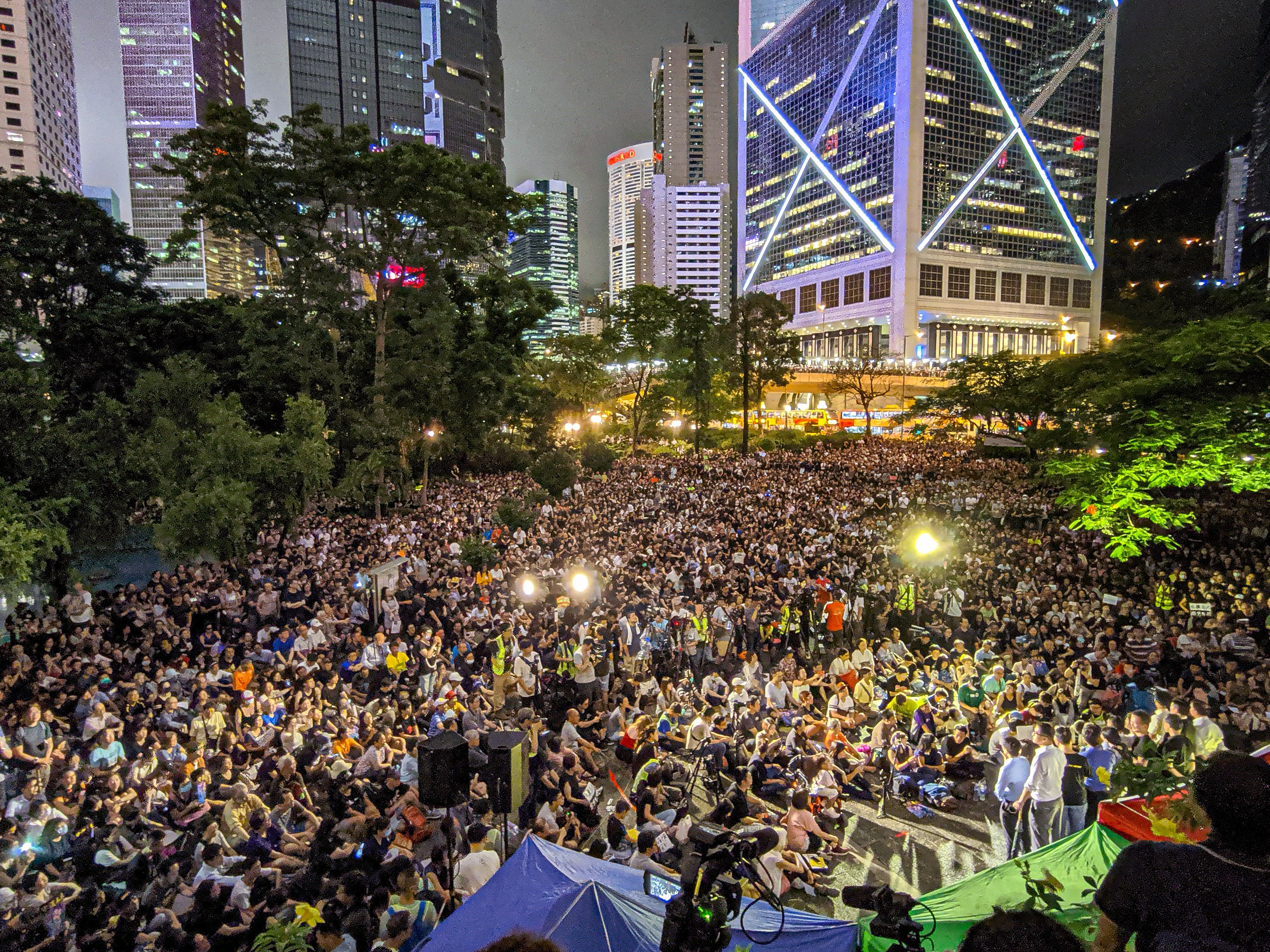 Hundreds of civil servants of Hong Kong gathered at Chater Garden on 2 August, urging the government of Hong Kong to to address protesters’ demands over the extradition bill crisis.